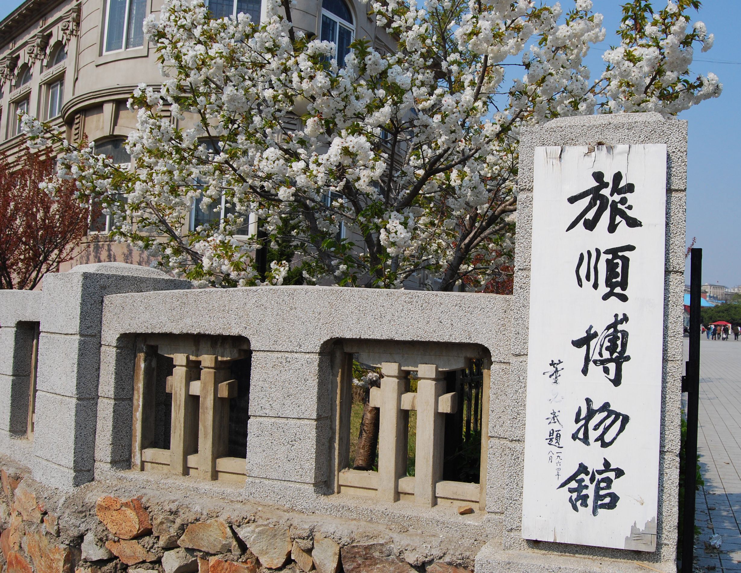 Lushun Museum's Entrance to the Site